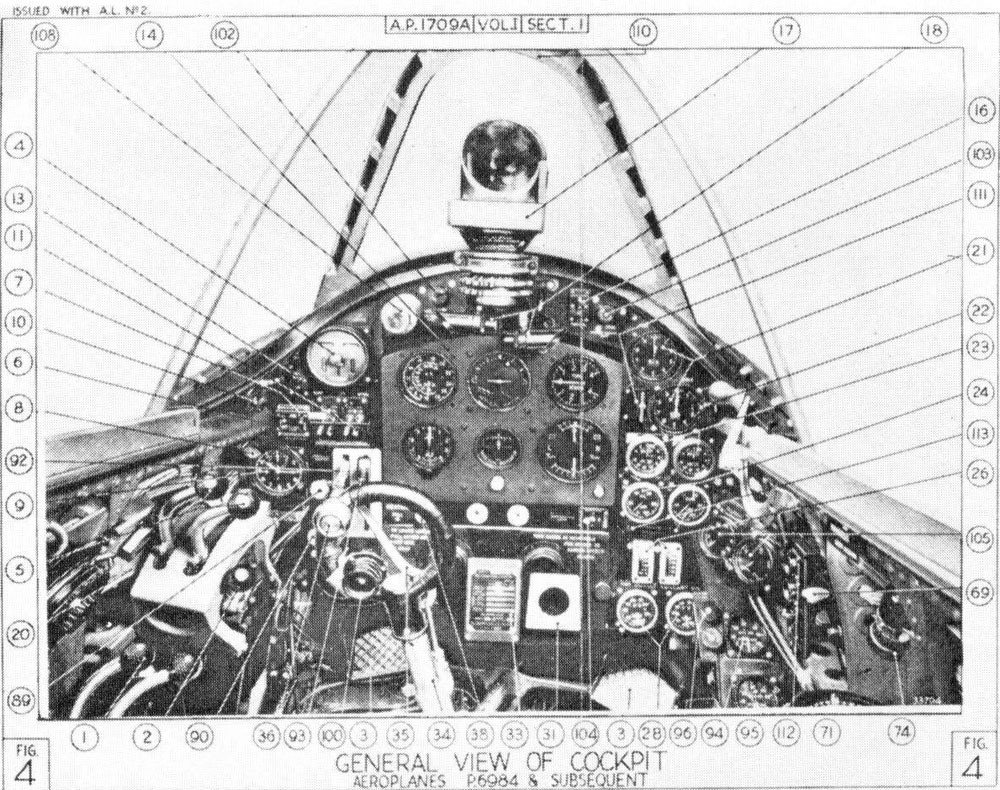 Cockpit of British fighter aircraft Westland Whirlwind